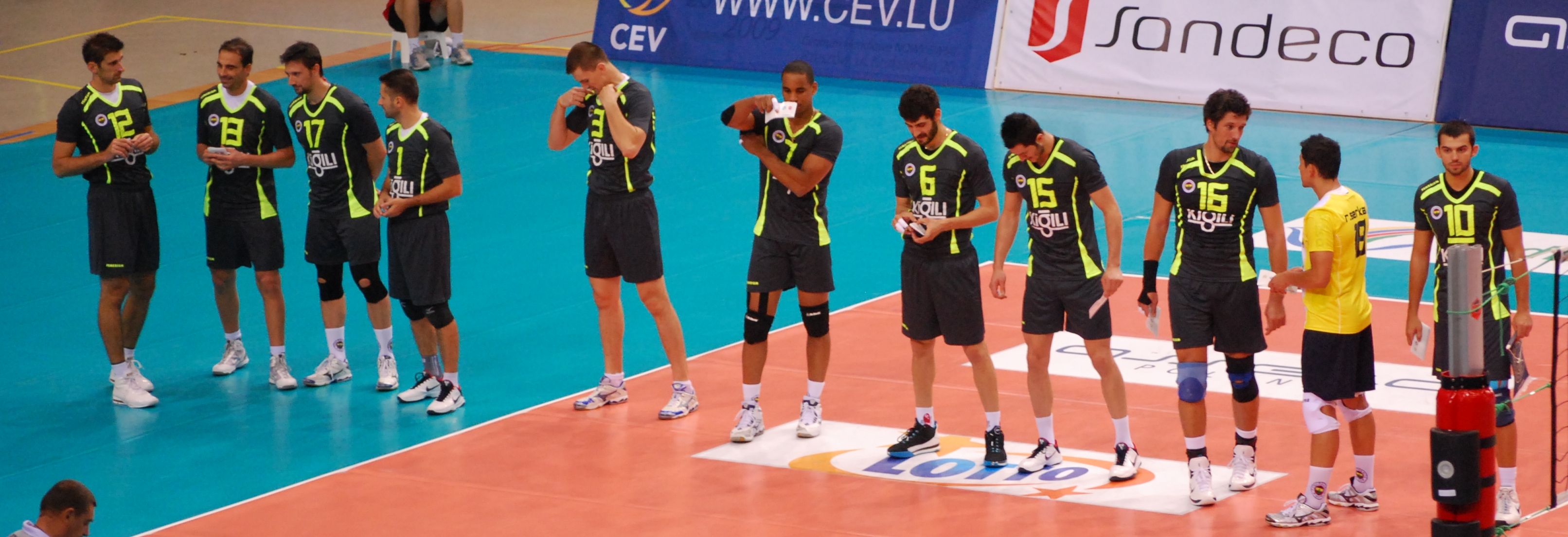 Fenerbahçe Men's Volleyball 12 - Tomislav Čošković, 13 - Cengizhan Kartaltepe, 17 - İsmail Cem Kurtar, 1 - Burak Yavuz, 3 - Ersin Durgut, 7 - Leonel Marshall, 6 - Kemal Kayhan, 15 - Emre Batur, 16 - Andrija Gerić, 18 - Ramazan Serkan Kılıç, 10 - Arslan Ekşi